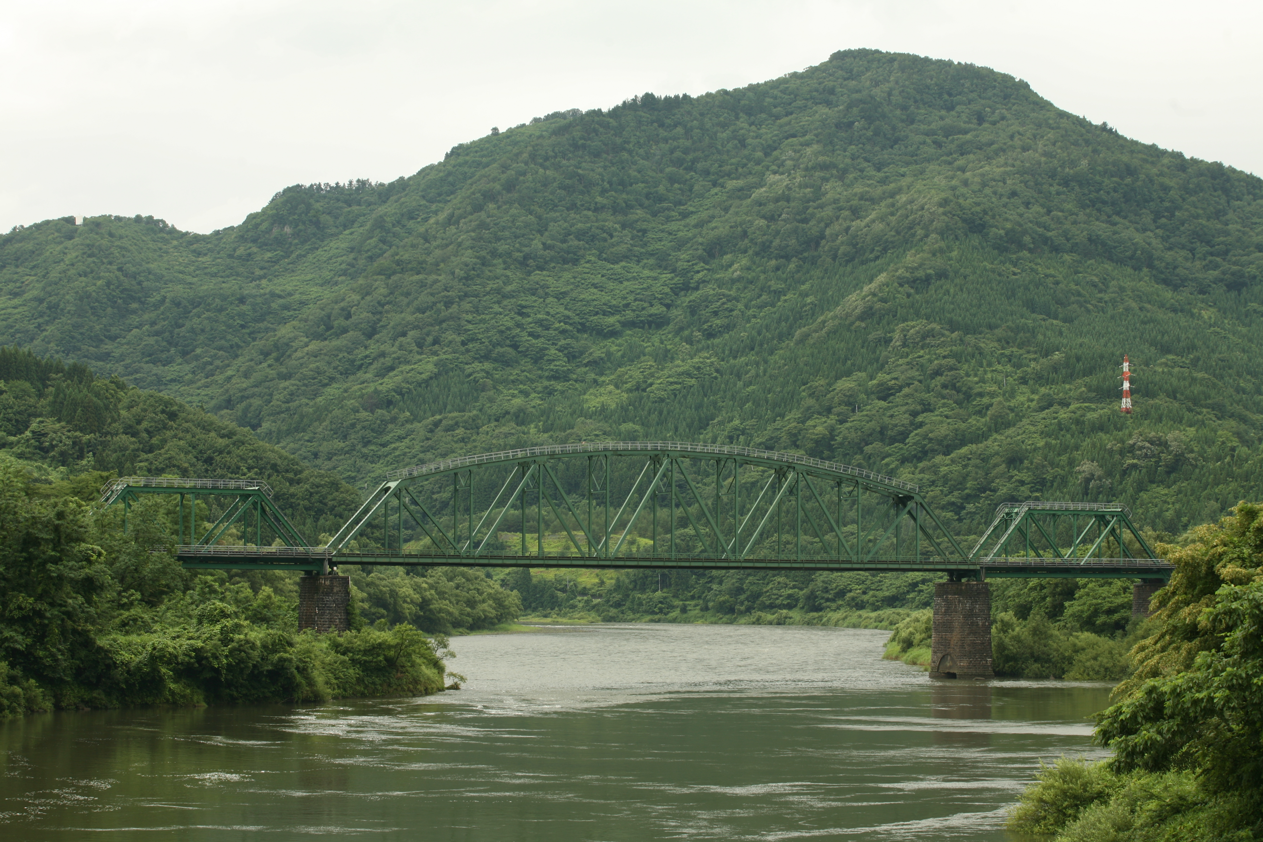 Fukado bridge,JR-East Banetsu-saisen Line.Both ends are Pratt Truss Bridge,manufactured by American Bridge.Center Truss is replaced in 1983.